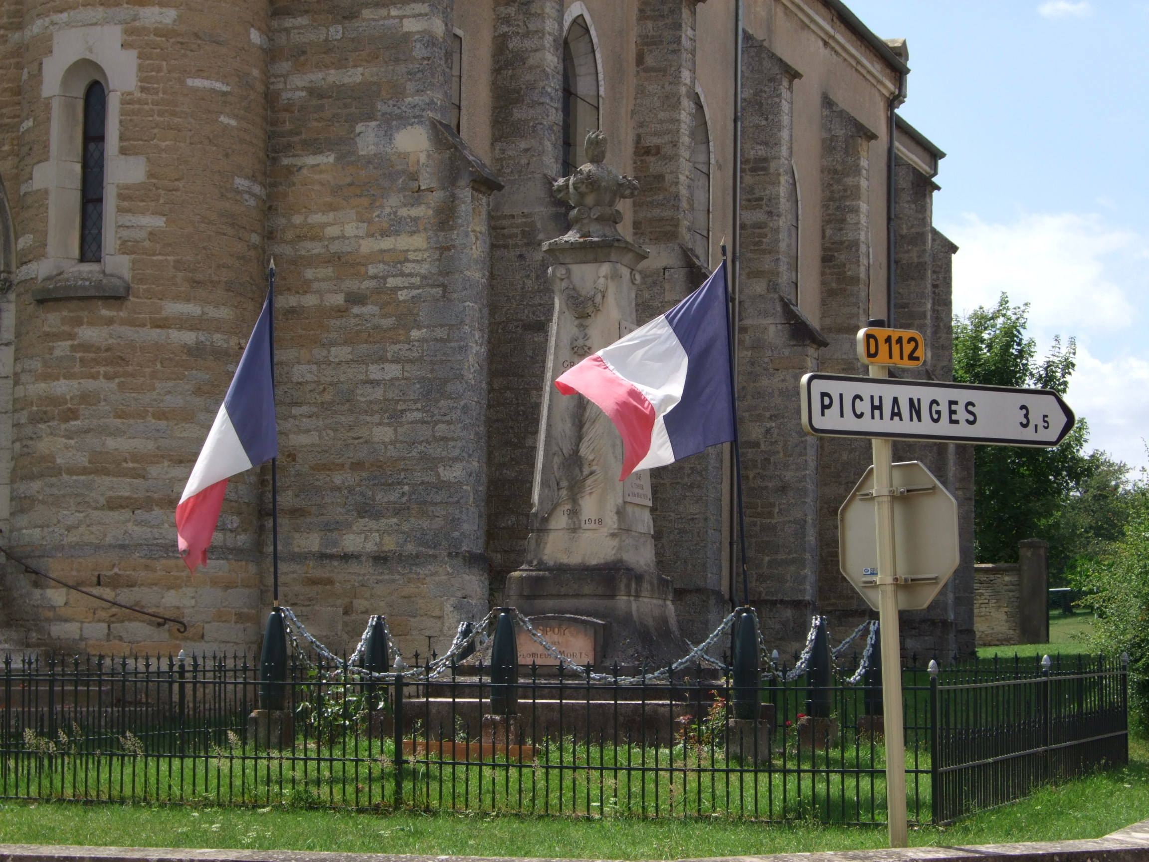 The monument for the war dead of Spoy